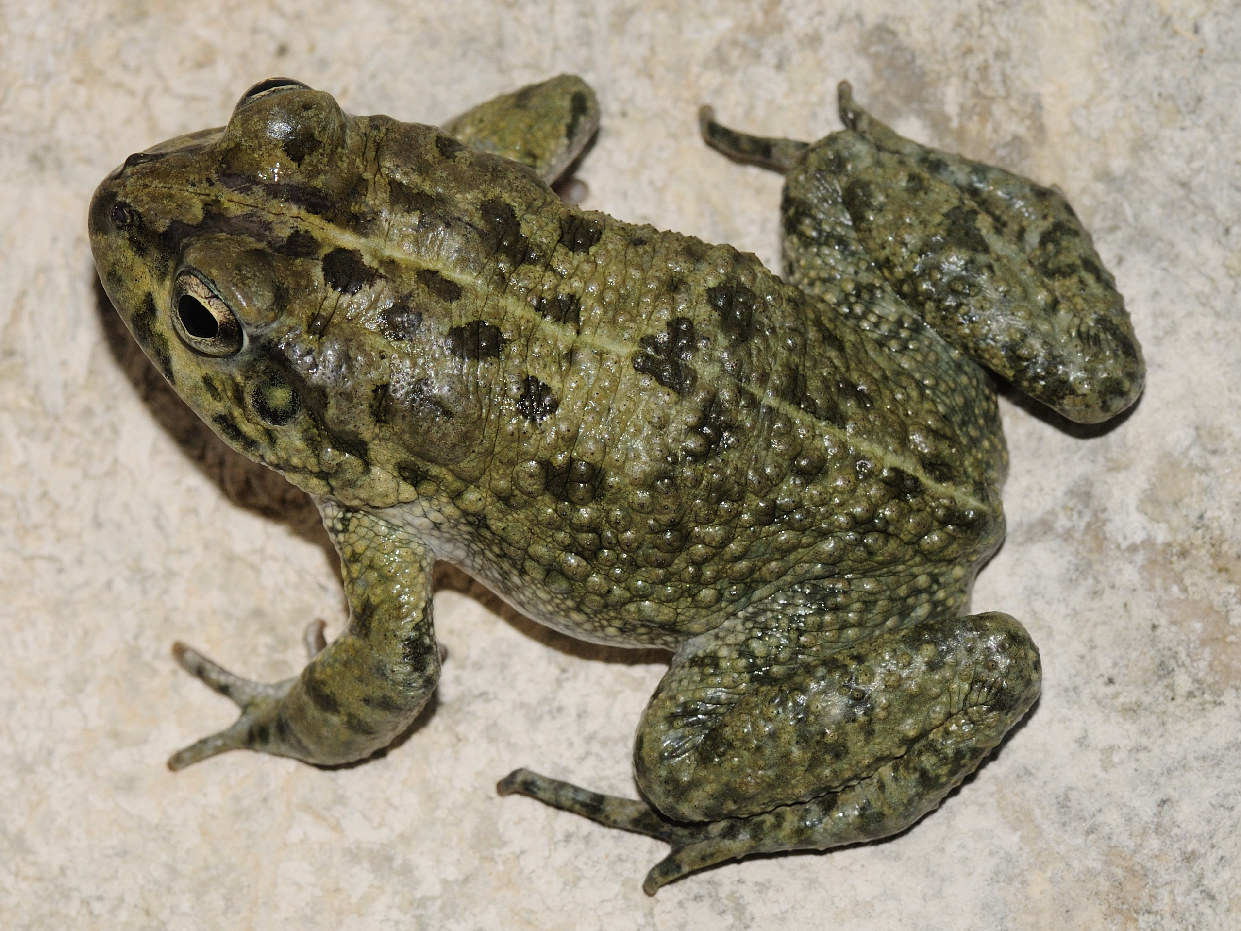 Location: Wadi Shab (Oman) (see geotag) '